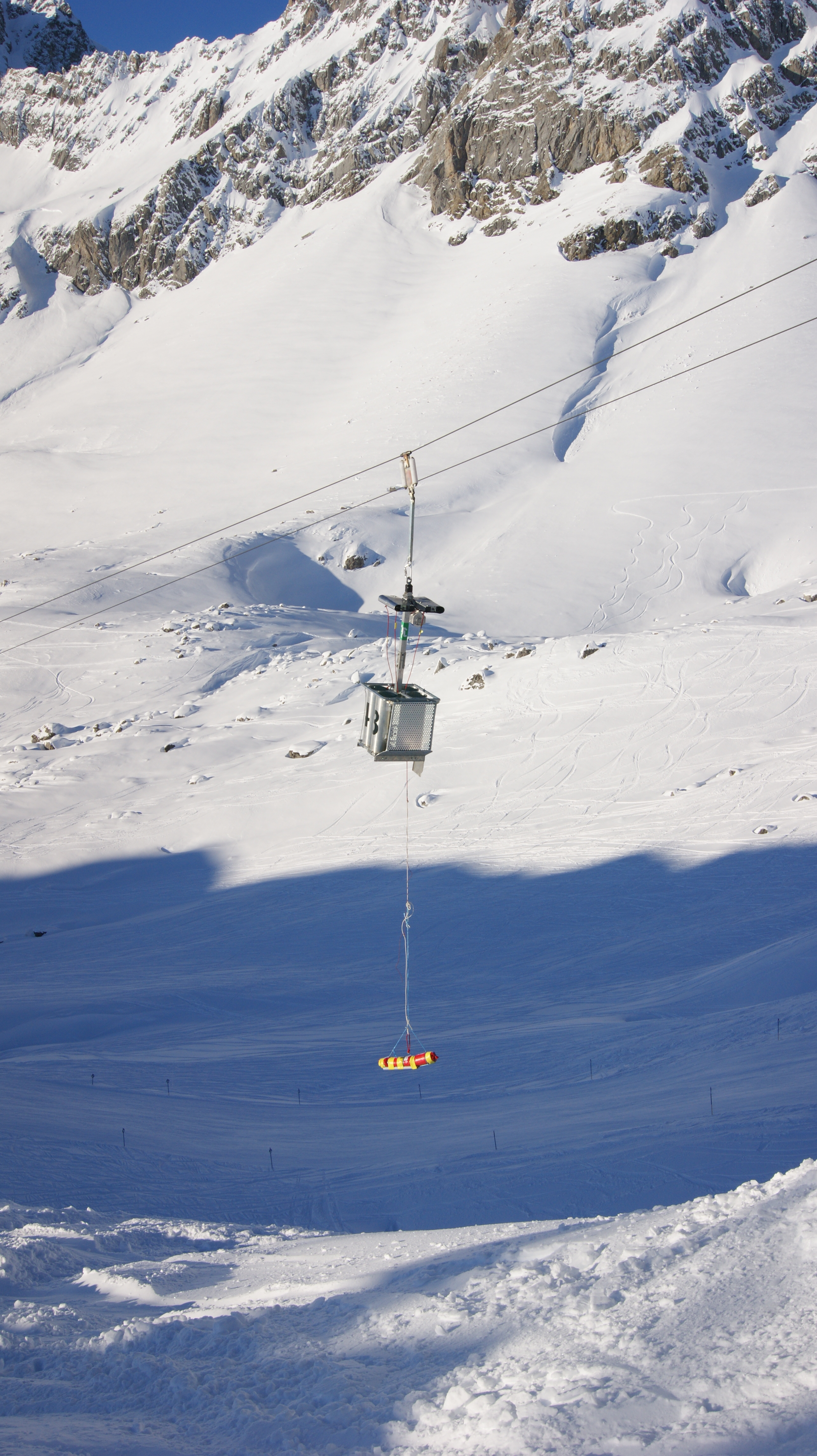 Avalanche blasting ropeway Valfagehr in Rauz, Kloesterle, Voralberg, Austria. Automatic ejector for the explosive - after ejection.